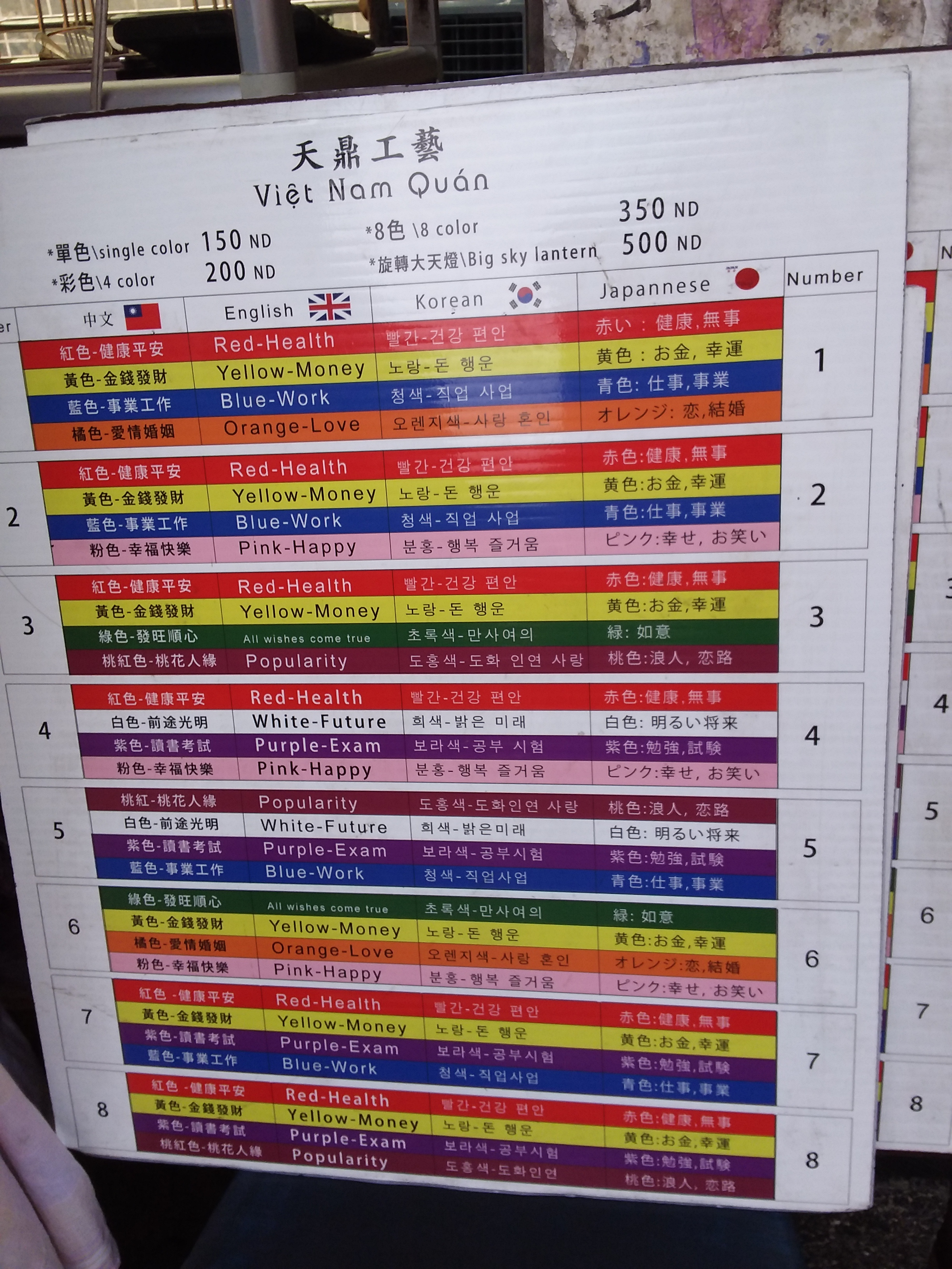 TW 台灣 Taiwan 台北 Taipei 十分 Shifen 平溪 Pingxi 天燈 Sky Lantern shop August 2019